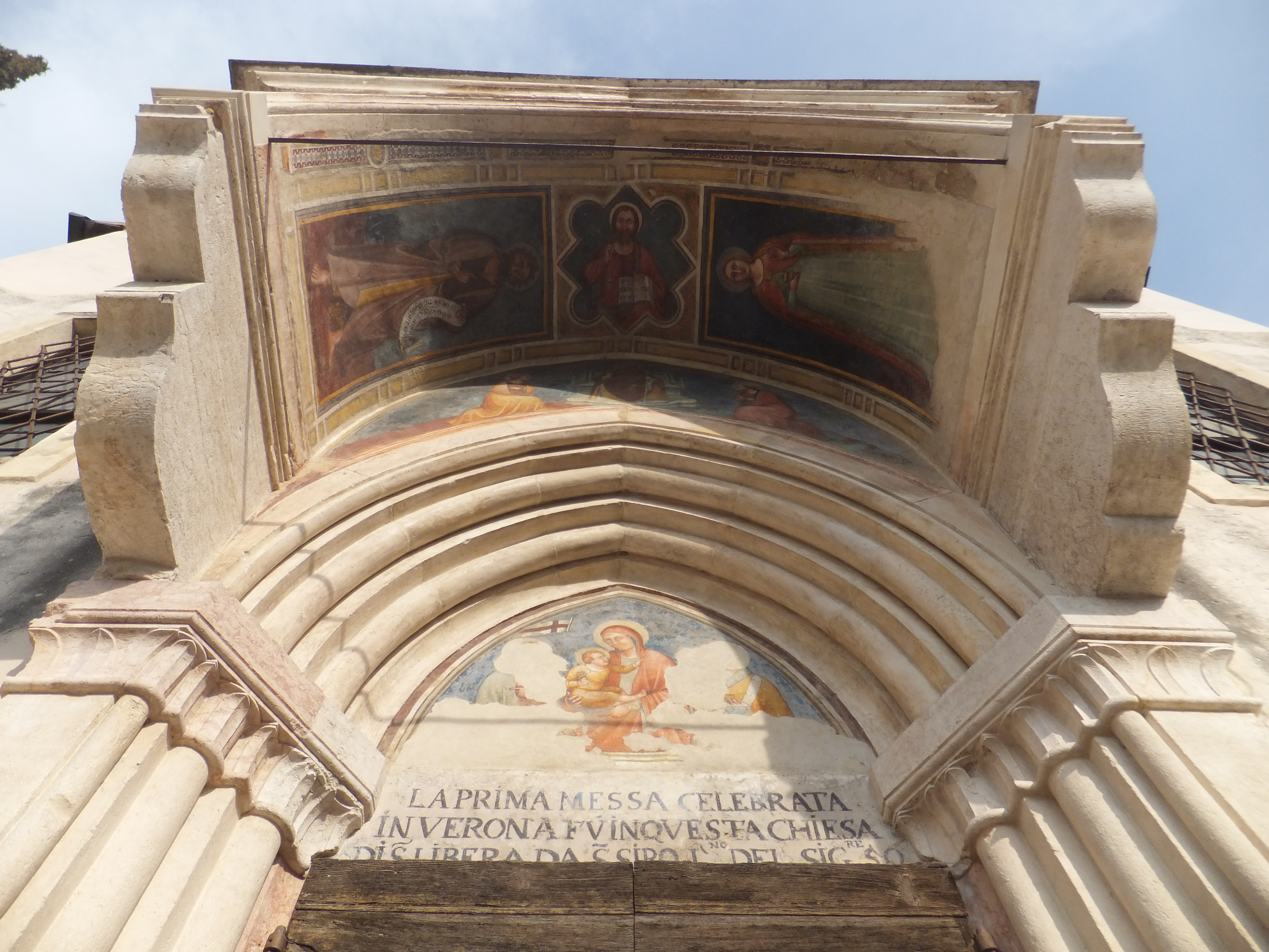 Verona, church of saints Siro and Libera - Frescoes above the entrance door